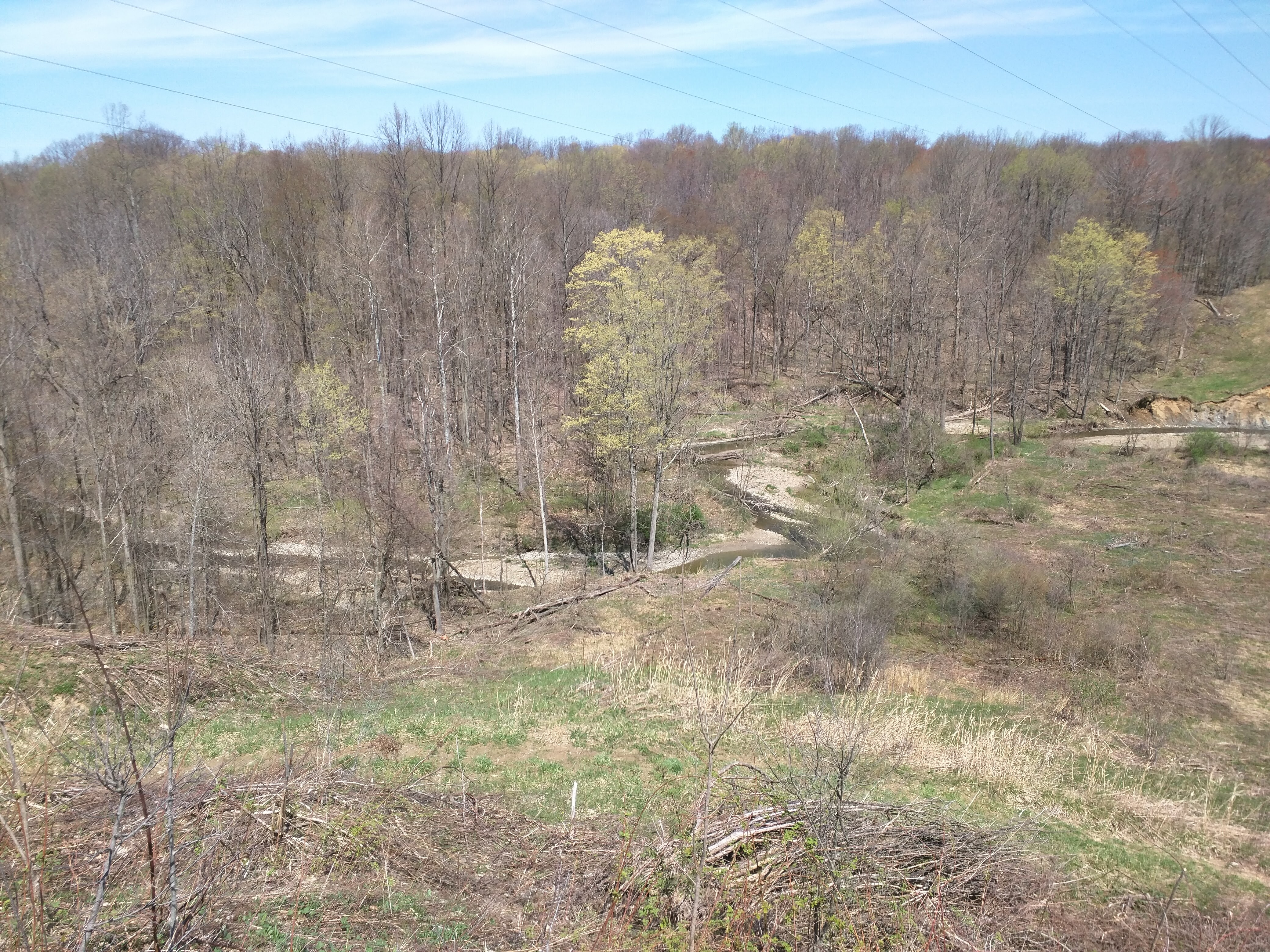 View of Big Creek from the Powerline Trail.